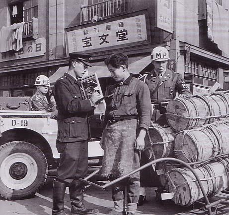 Policeman and MP who confiscates black-market goods